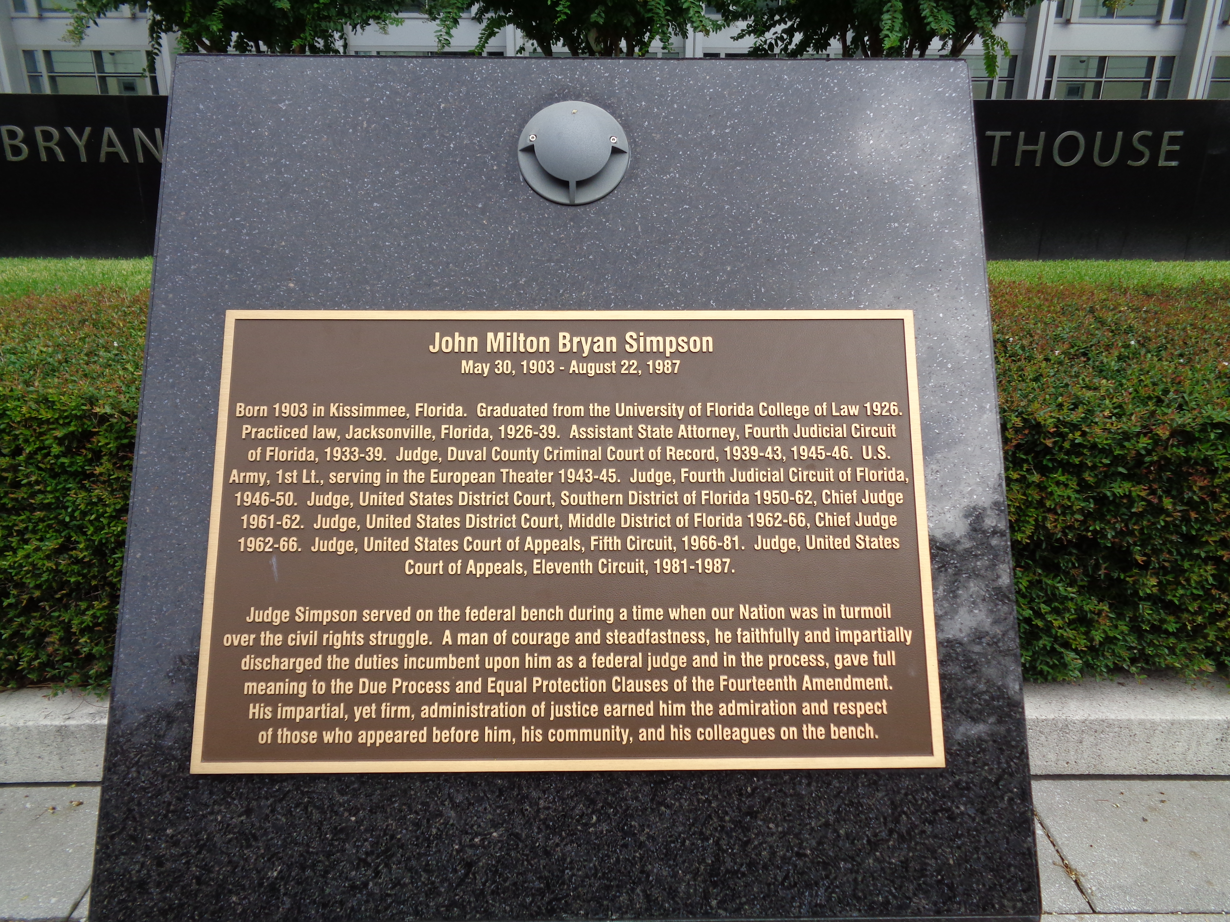 Bryan Simpson United States Courthouse, Jacksonville, Duval County, Florida